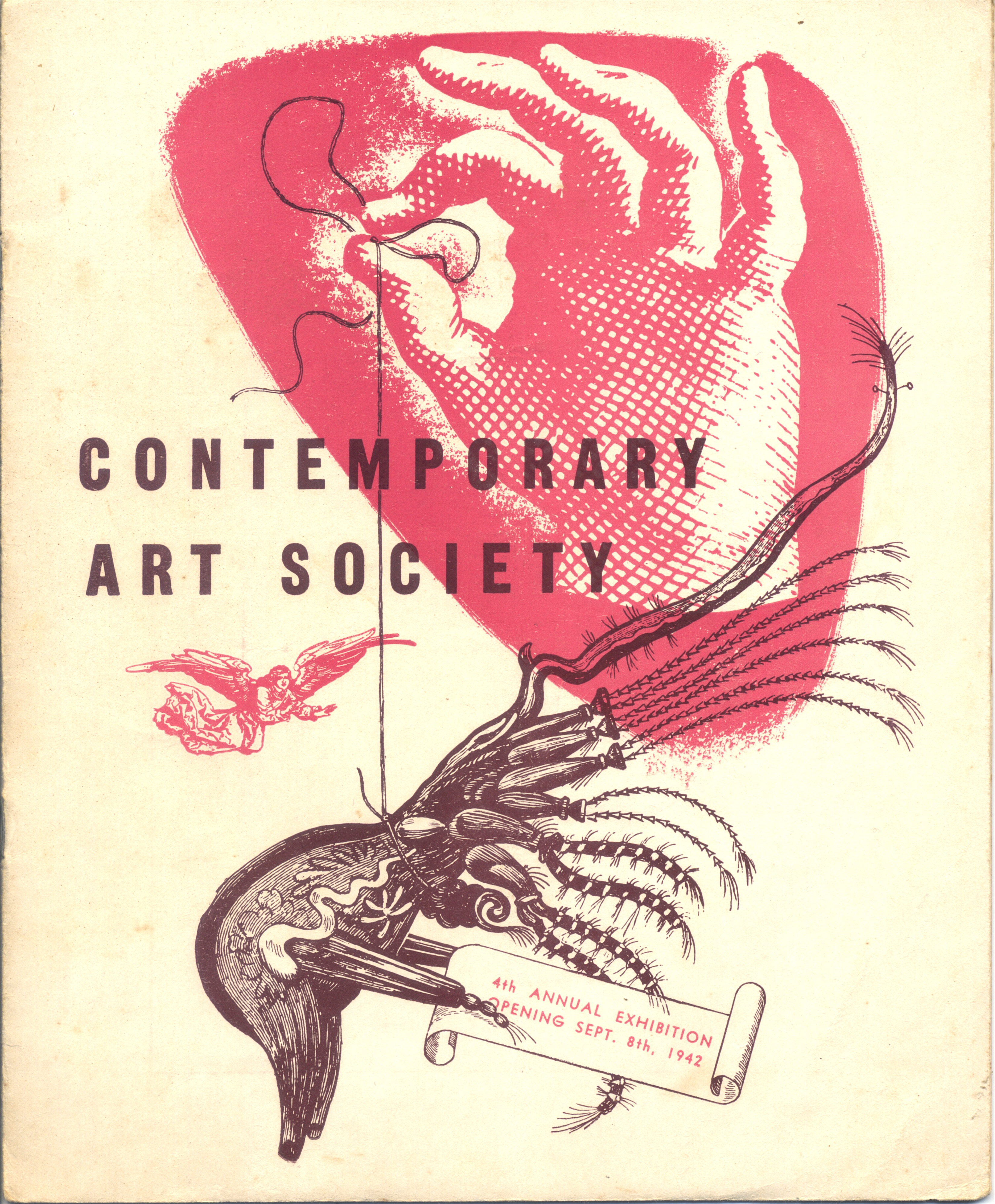 Contemporary Art Society NSW, catalogue 1942